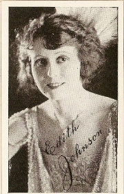 Edith Johnson